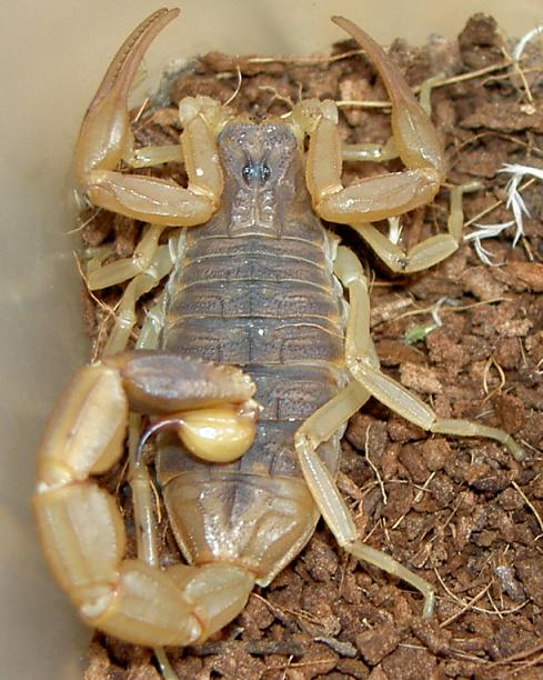 Mesobuthus martensii